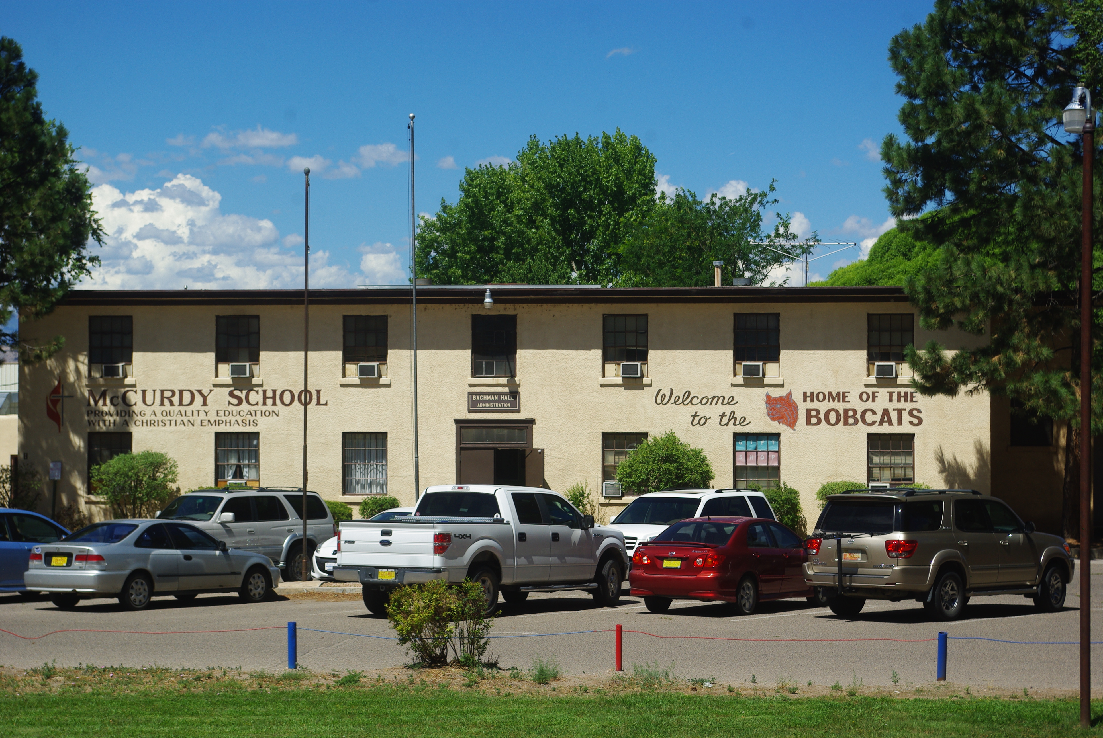 Bachman Hall (administration building), McCurdy High School, Española, New Mexico, U.S.A.